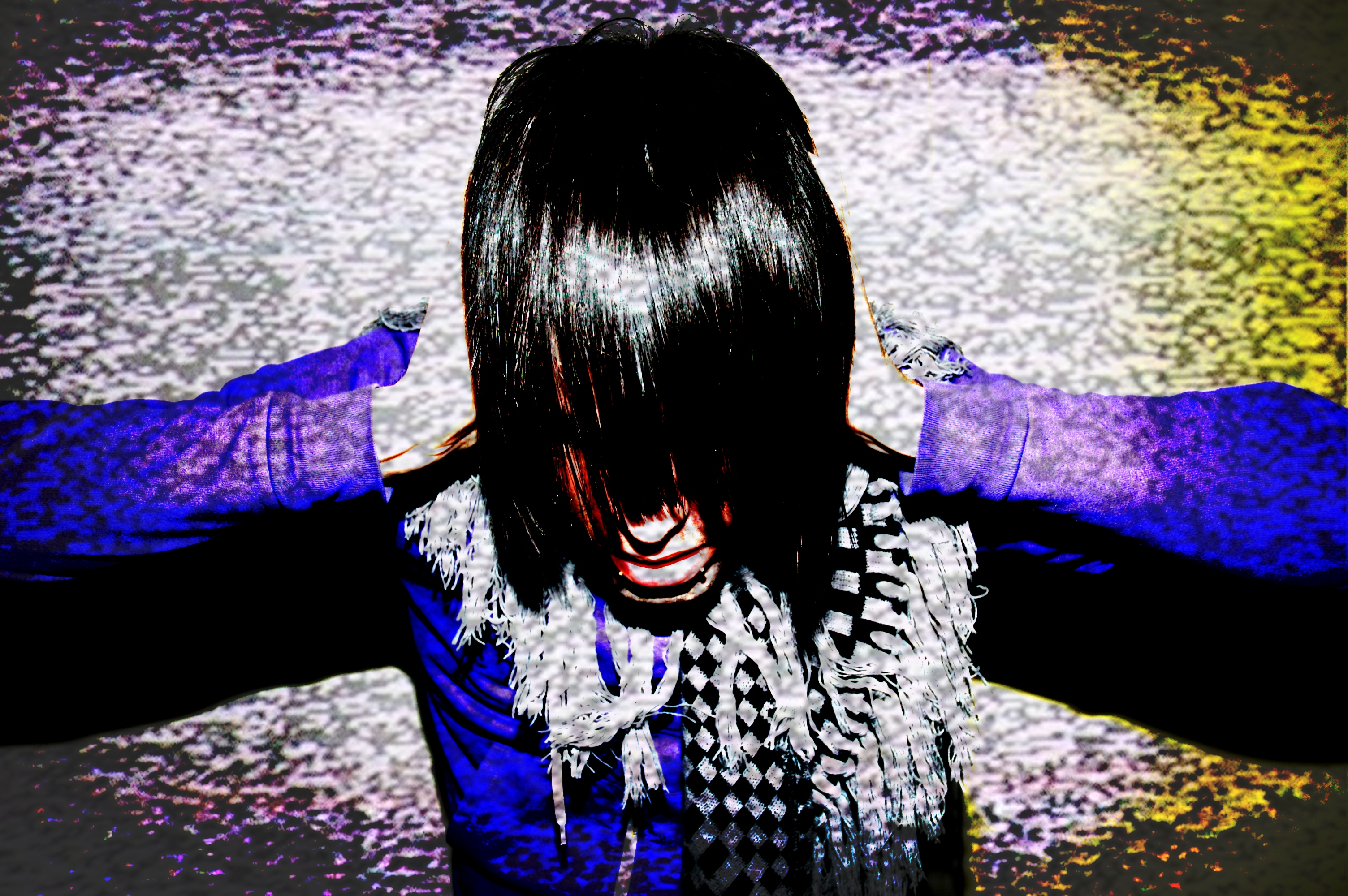 Original caption: Day 356 / 366 Sunday I said the other day that the world was against me, but really, I think its just my self, or my body that is against me. I don't like it, and it don't like me. That we can agree on. Anyway, My ears didn't like the gig I went to last Monday. The ringing in my head never went away. I thought it was getting better or maybe my head was just getting used to it. I spent the week avoiding loud noises to give my ears a rest. The Christmas ball was quite noisy. It's made things worse. Damn this carcass of mine It doesn't like the things I enjoy :-( So now I'm feeling down. Worried. Panicking. Fed up